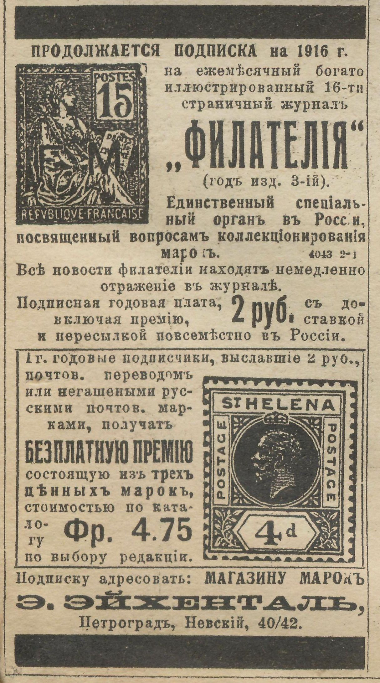 Advertisement for the subscription of Filatelia, Russian Magazine, published in the Niva magazine in 1916.